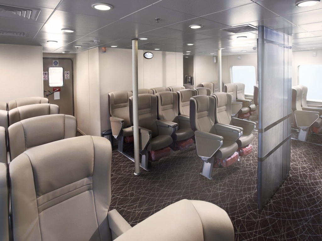 Business class interior of Horizon Fast Ferry. A Ferry service from Singapore Harbour Front to Batam City via Harbour Bay Ferry Terminal.